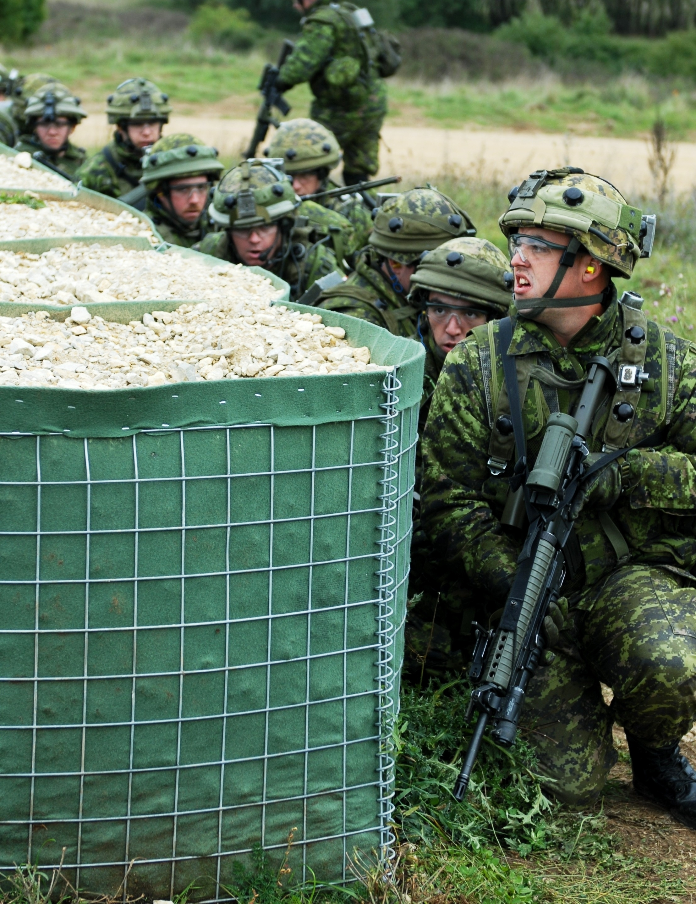 Canadian Soldiers from India Company, 2nd Battalion, Royal Canadian Regiment wait for the order to begin their live-fire event during Cooperative Spirit 2008 at the Joint Multinational Readiness Center near Hohenfels, Germany. Cooperative Spirit 2008 is a multinational Combat Training Center rotation intended to test interoperability among the American, British, Canadian, Australian and New Zealand Armies (ABCA).